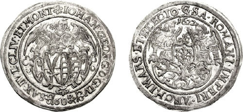 Germany, Saxony. Johann Georg I. 1615-1656. AR 60 Kipper Groschen (23.04 g, 6h). Pirna mint; Georg Stange, mintmaster. Dated 1622. IOHANN : GEORG : D : G • DV SAX • IVL : CLIV : ET MONT, angel bearing garnished coat-of-arms; 60gr between tridents below • SA • ROMANI•IMPERI • ARCHIMARS • ET • ELECTO •, two angels bearing trilobe coat-of-arms; GS monogram and date above. Rahnenführer 456 obv/rev-; KM 373. EF.